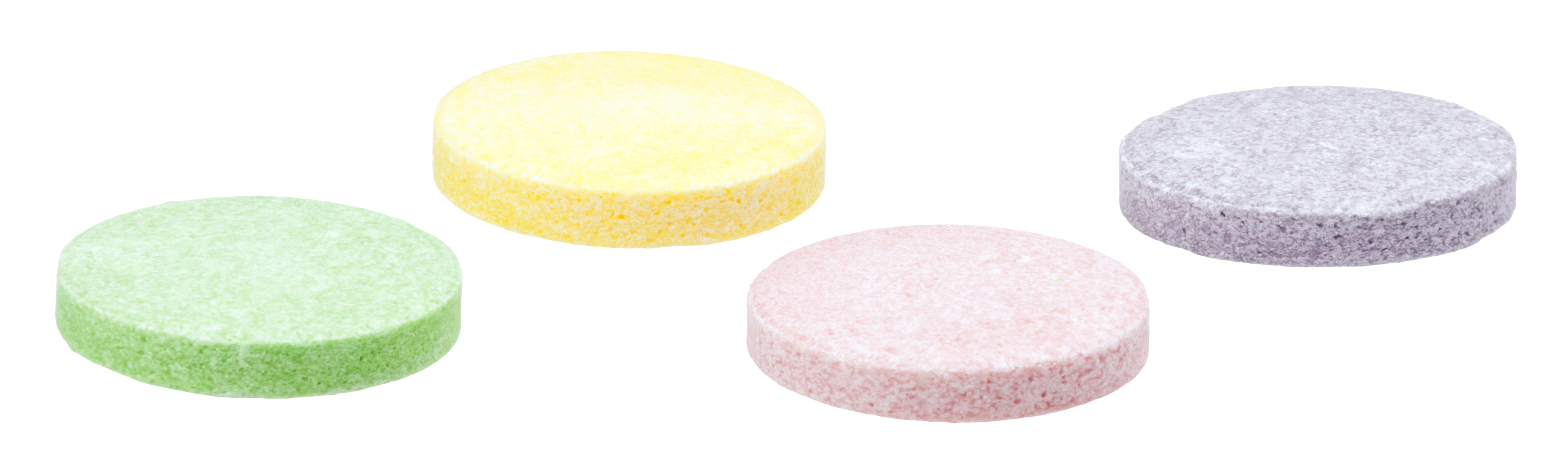 Giant Chewy SweeTarts, made by the Willy Wonka Candy Company.